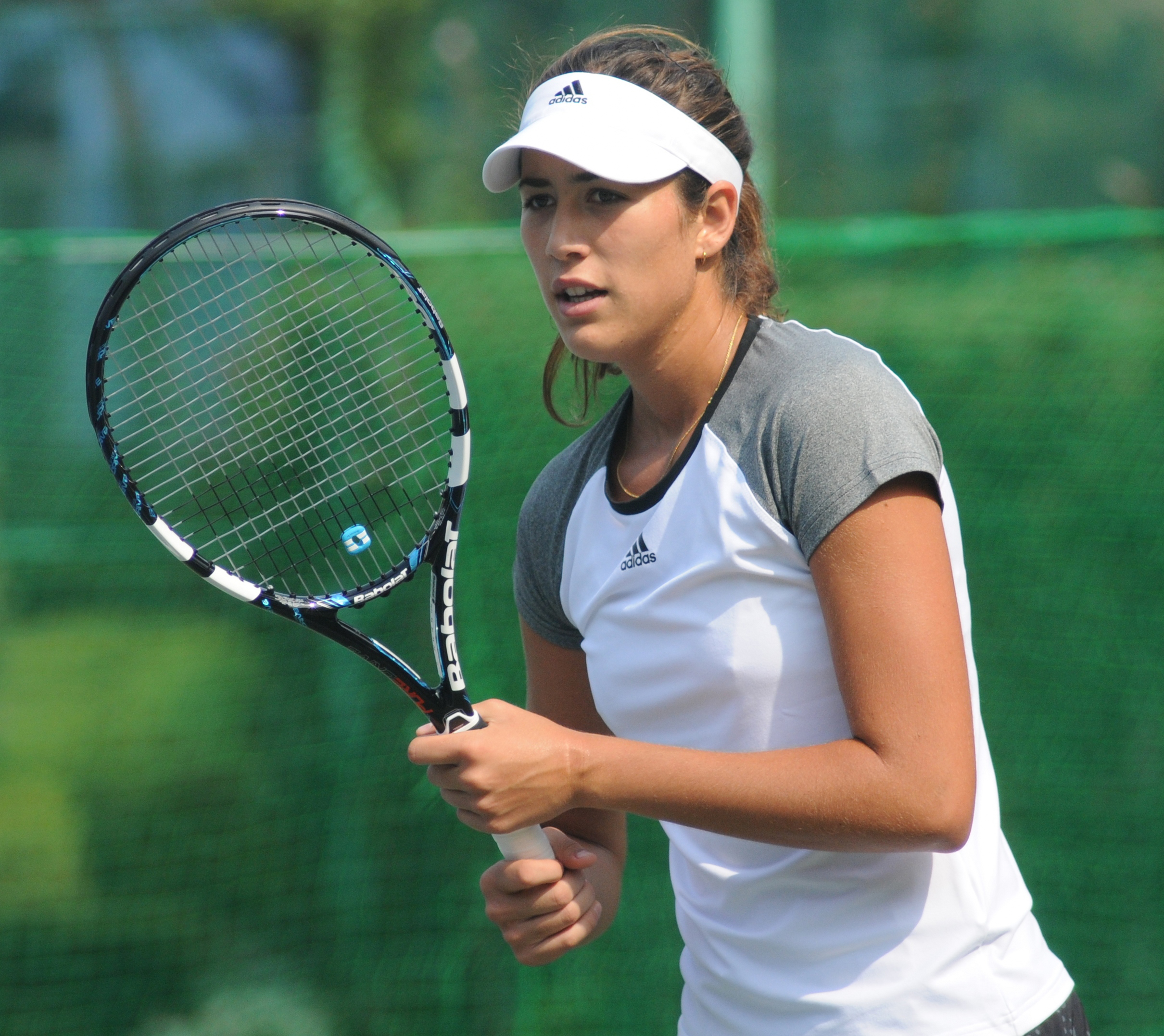 Garbiñe Muguruza at the 2014 Toray Pan Pacific Open